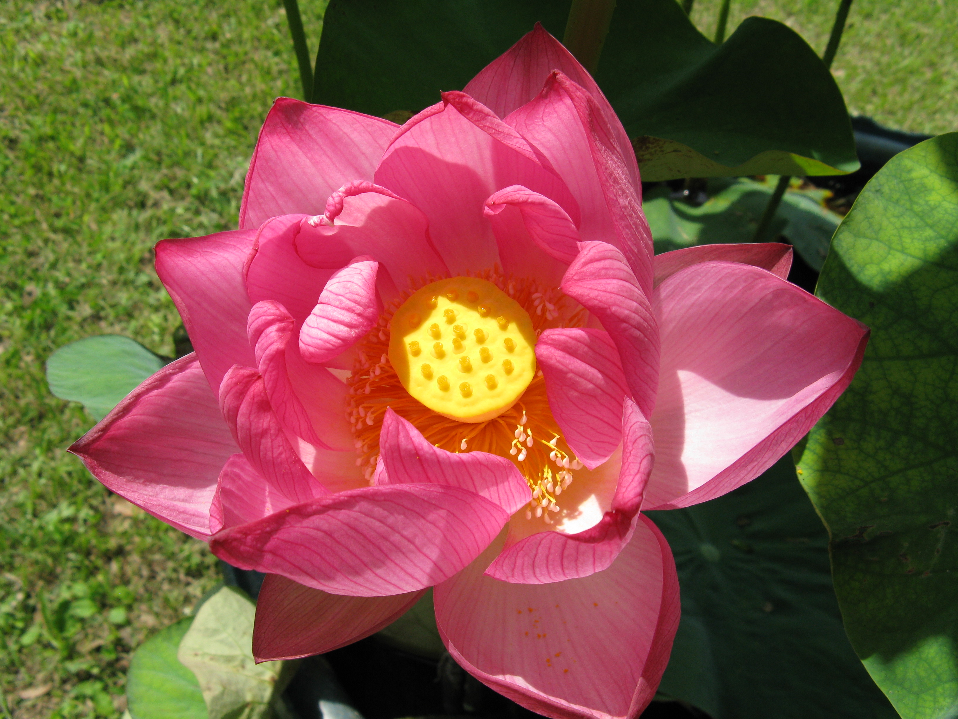 Scientific name Nelumbo nucifera 'Johdairen' ('Jyoudairen')